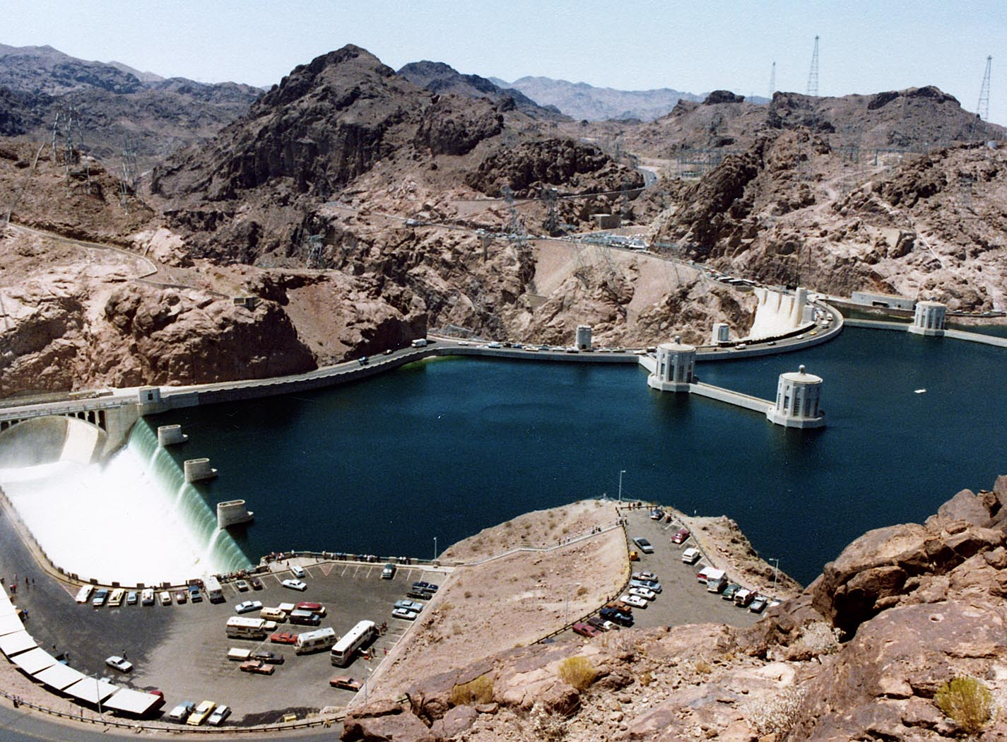 Water spills into the Arizona spillway, Hoover Dam, July 1983